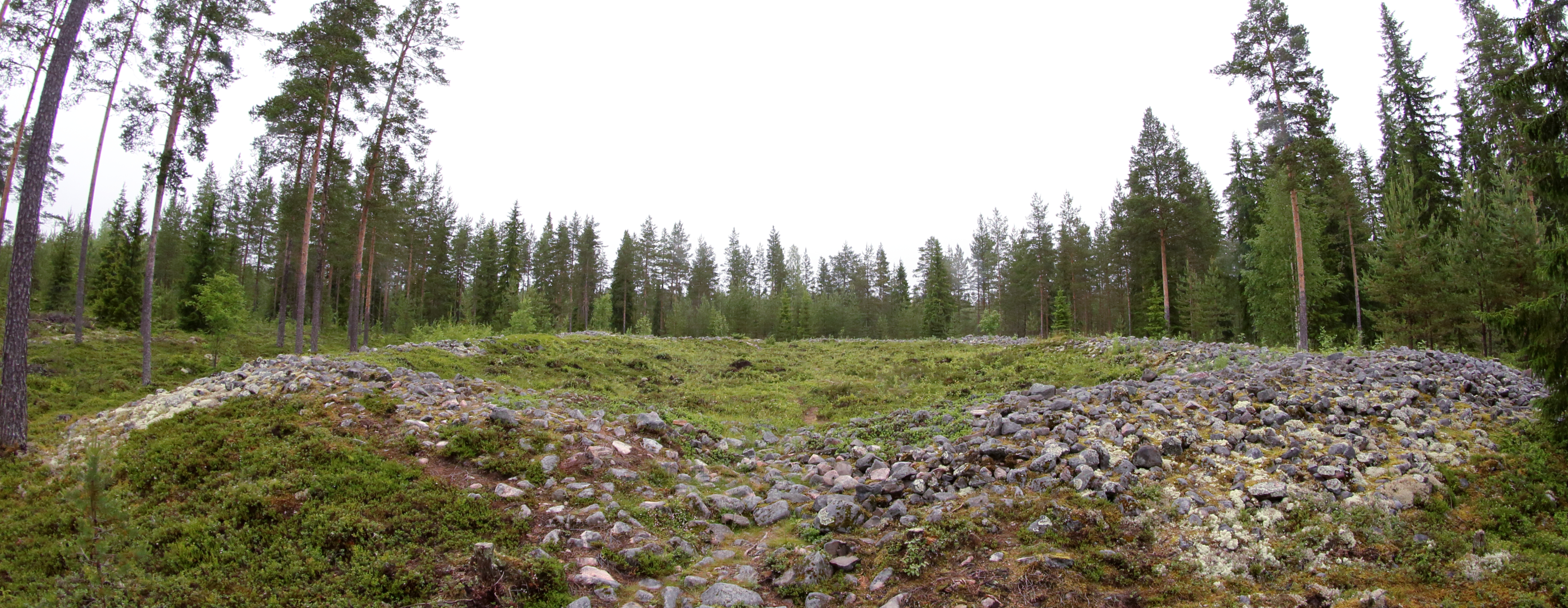 Kastelli Giant's church, a rectangular neolithic stone wall located in Raahe, Finland. Structure is photographed along its main axis from the south to north.